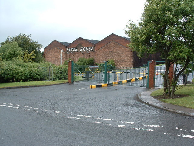 Former Glenflager Distillery, closed since 1985. Now Inver House storage facility.